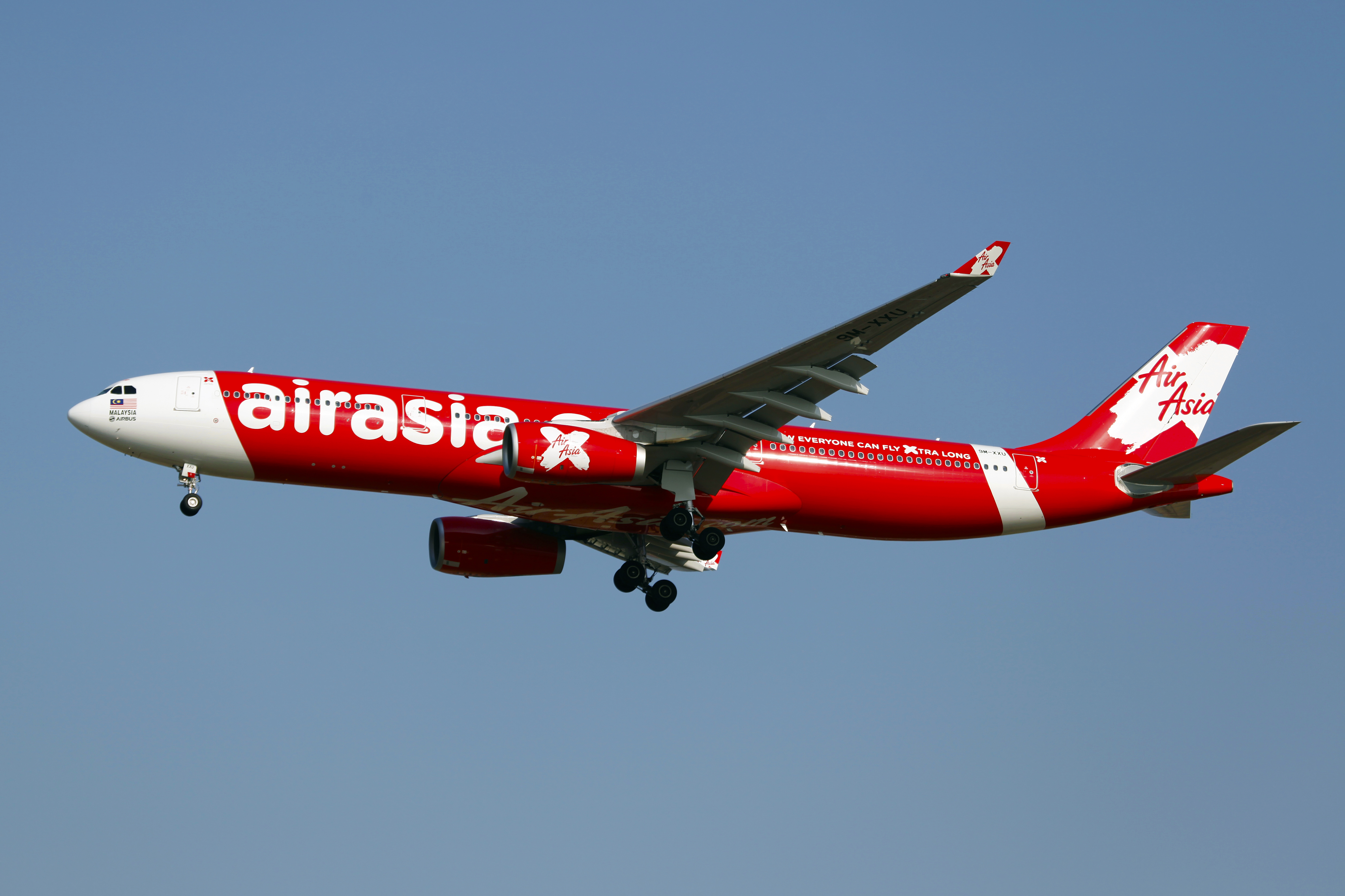 9M-XXU | AirAsia X | Airbus A330-343 | Seoul Incheon International Airport [ICN]